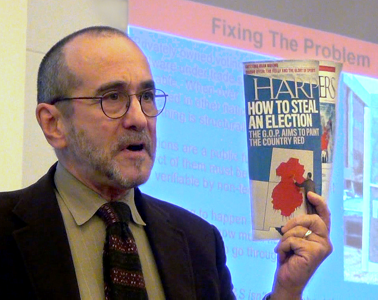 Mark Crispin Miller, Professor, Steinhardt School of Culture, Education, and Human Development at New York University, speaking at Emergency Forum: “Will the 2012 Election be Stolen?” on October 22, at The Open Center, NY, NY